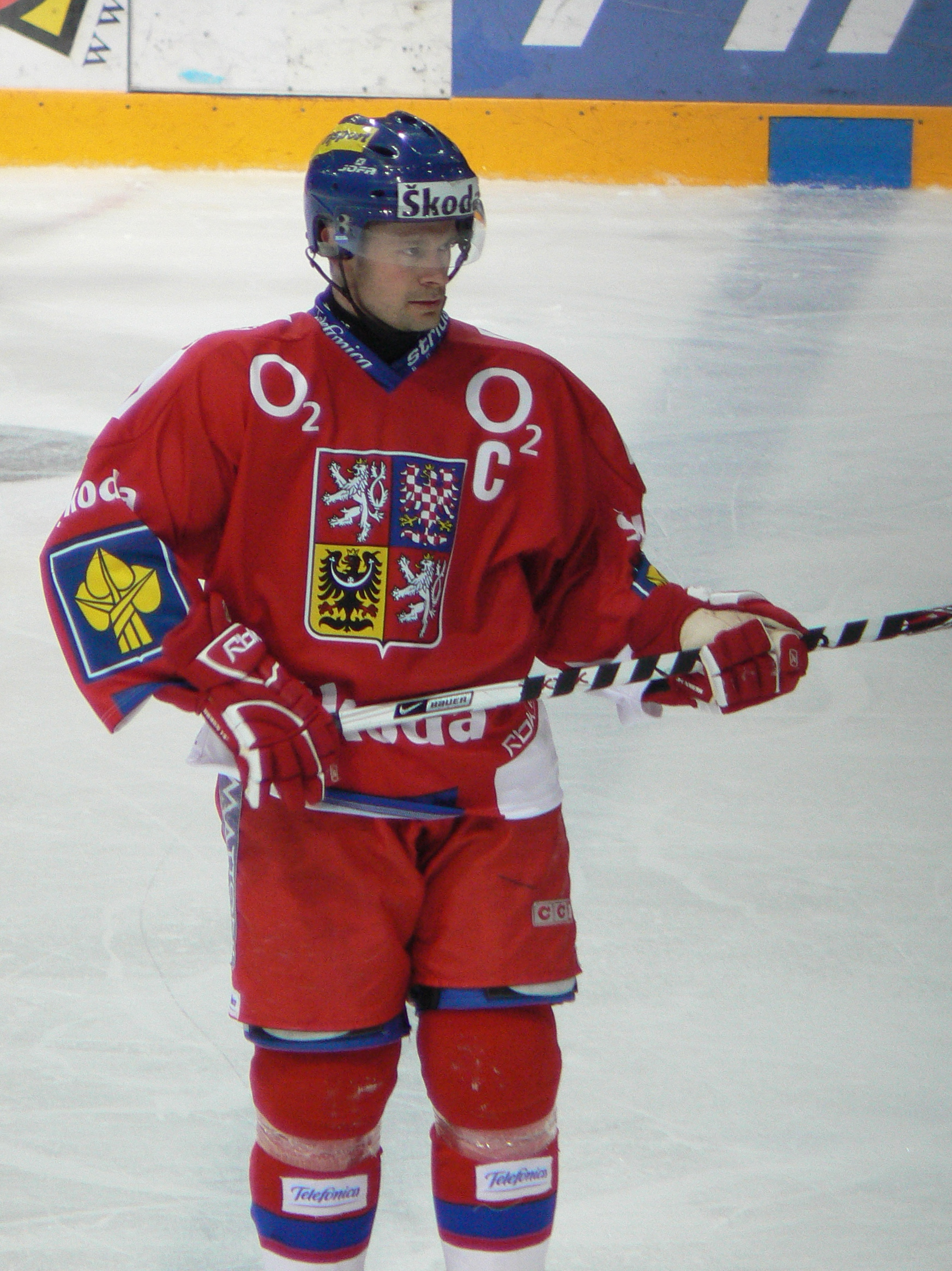 Czech ice hockey defenseman Radek Hamr captaining his national team in an LG Hockey Games / Euro Hockey Tour match against Finland in Tampere, Finland, February 2008.